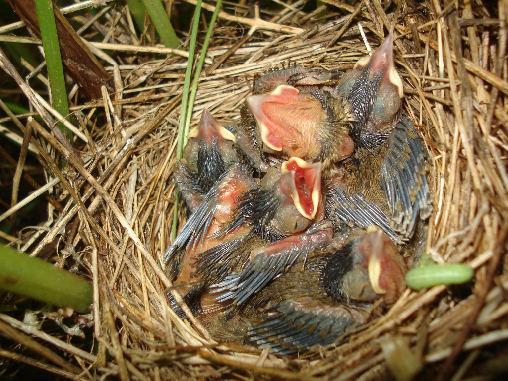 Marsh Warbler (Acrocephalus palustris)